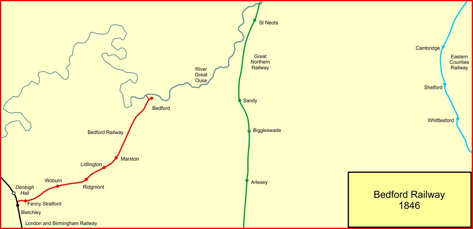 System map of the Bedford Railway, UK, in 1846 in the context of the future Oxford to Cambridge Railway